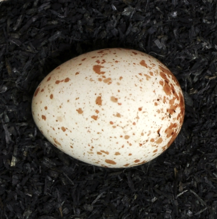 European crested tit Parus cristatus, egg, Coll. Museum Wiesbaden, Origin: Aßling, Bavaria, 12.05.1975, leg. W. Abelmann